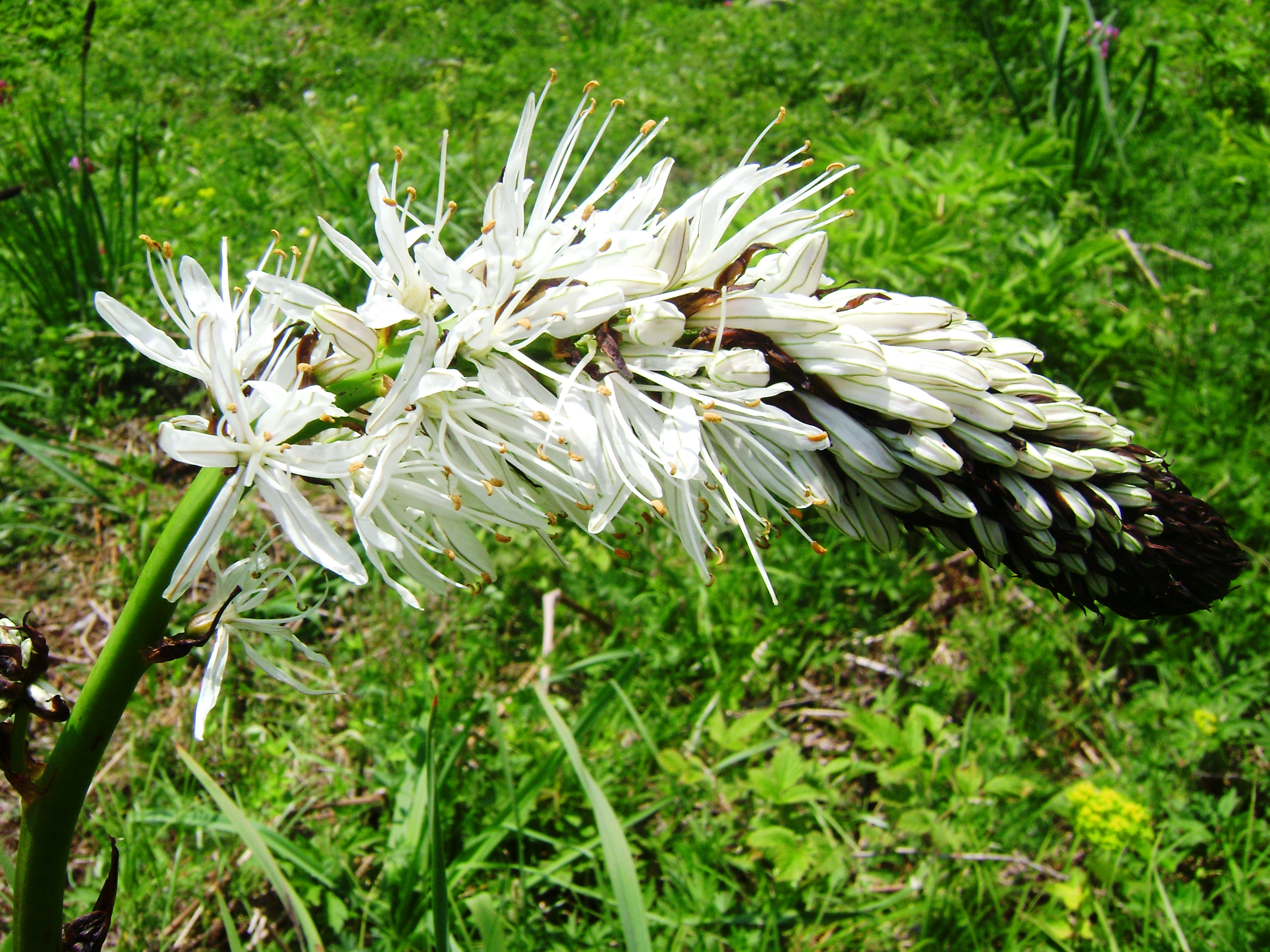 Rugova Mount